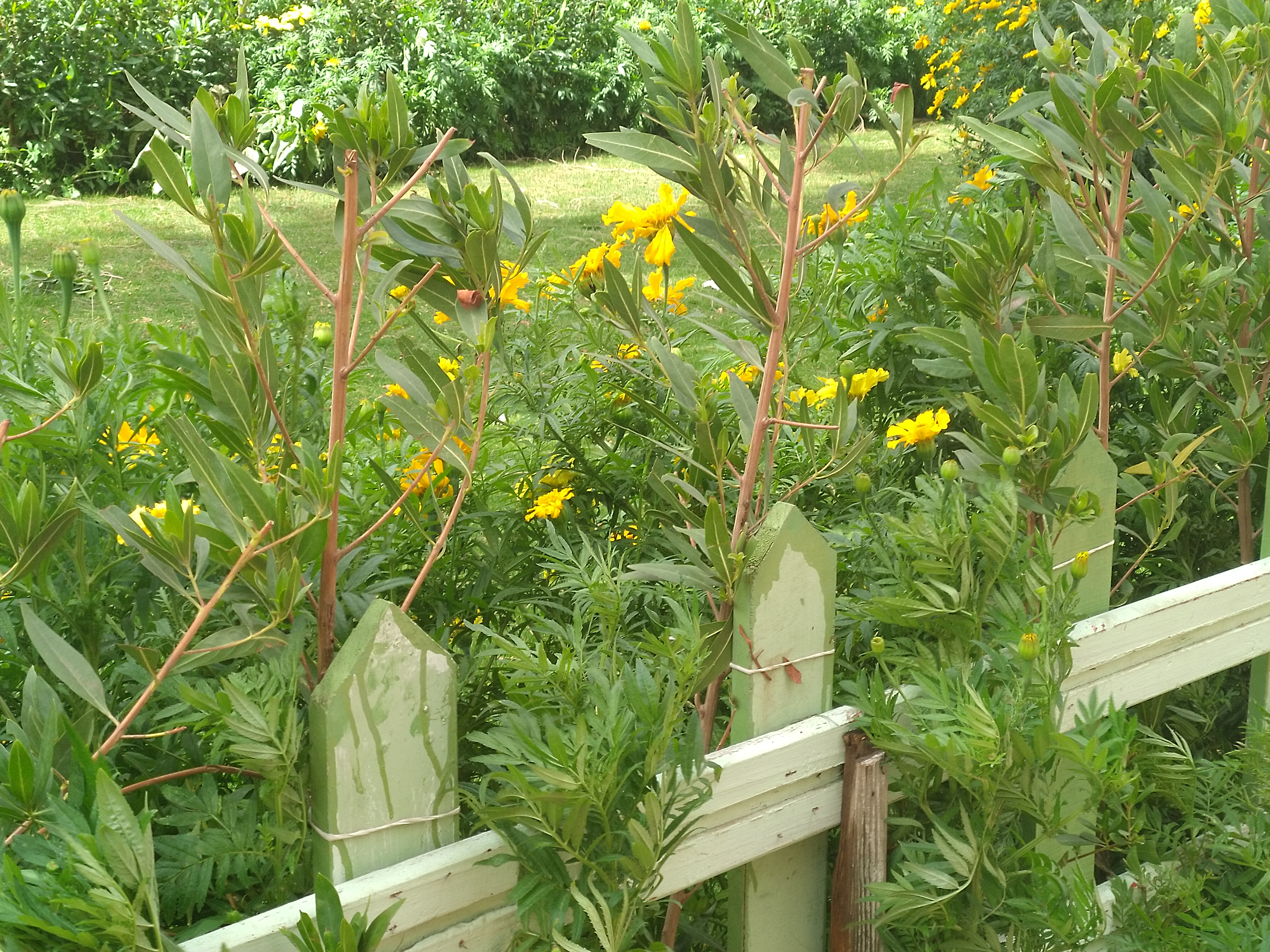 This is an image with the theme "Africa on the Move or Transport" from: Egypt